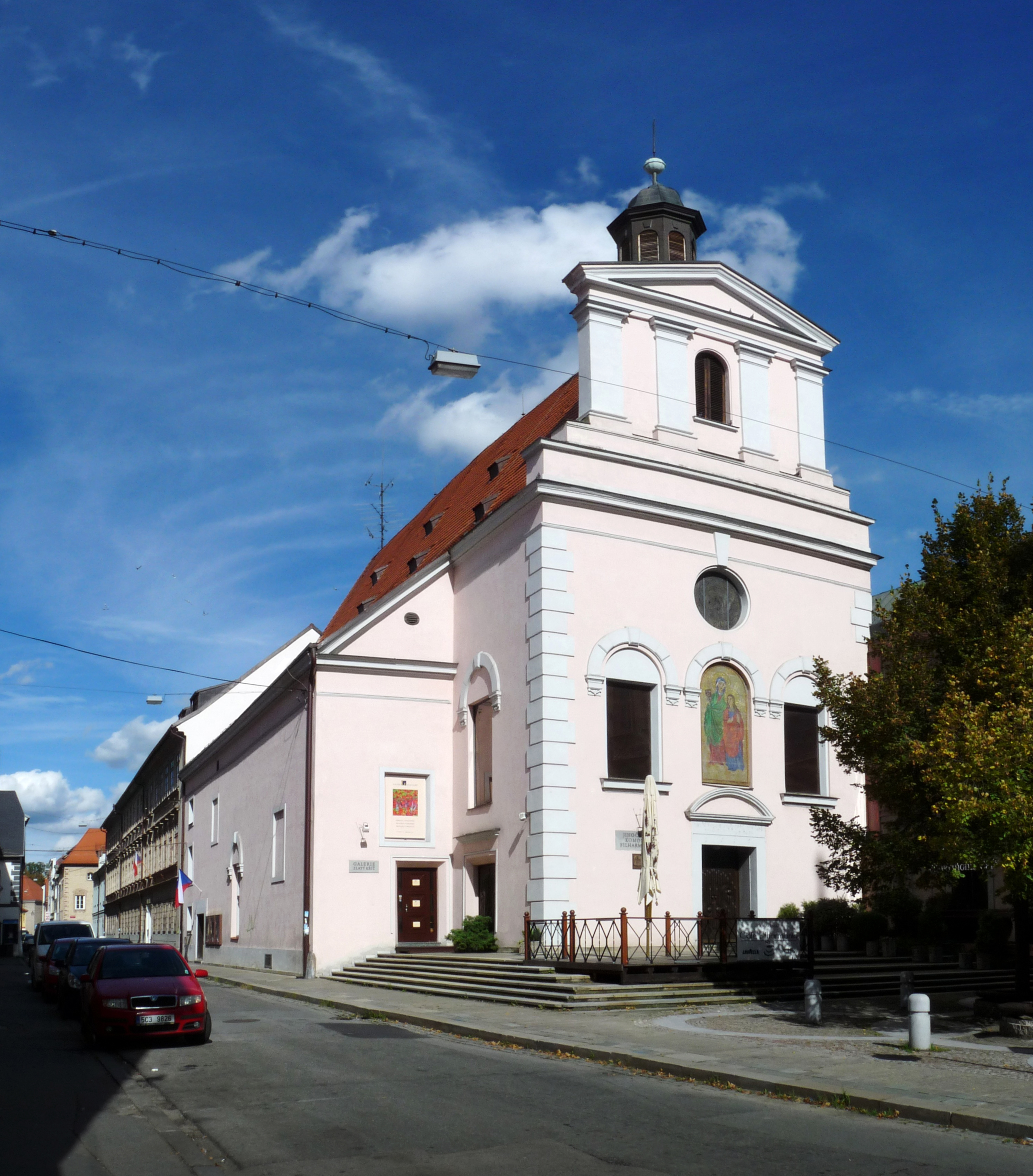 Otakar Jeremiáš Concert Hall, No 6 in Kněžská Street, České Budějovice, Czech Republic, originally St Anne Church.